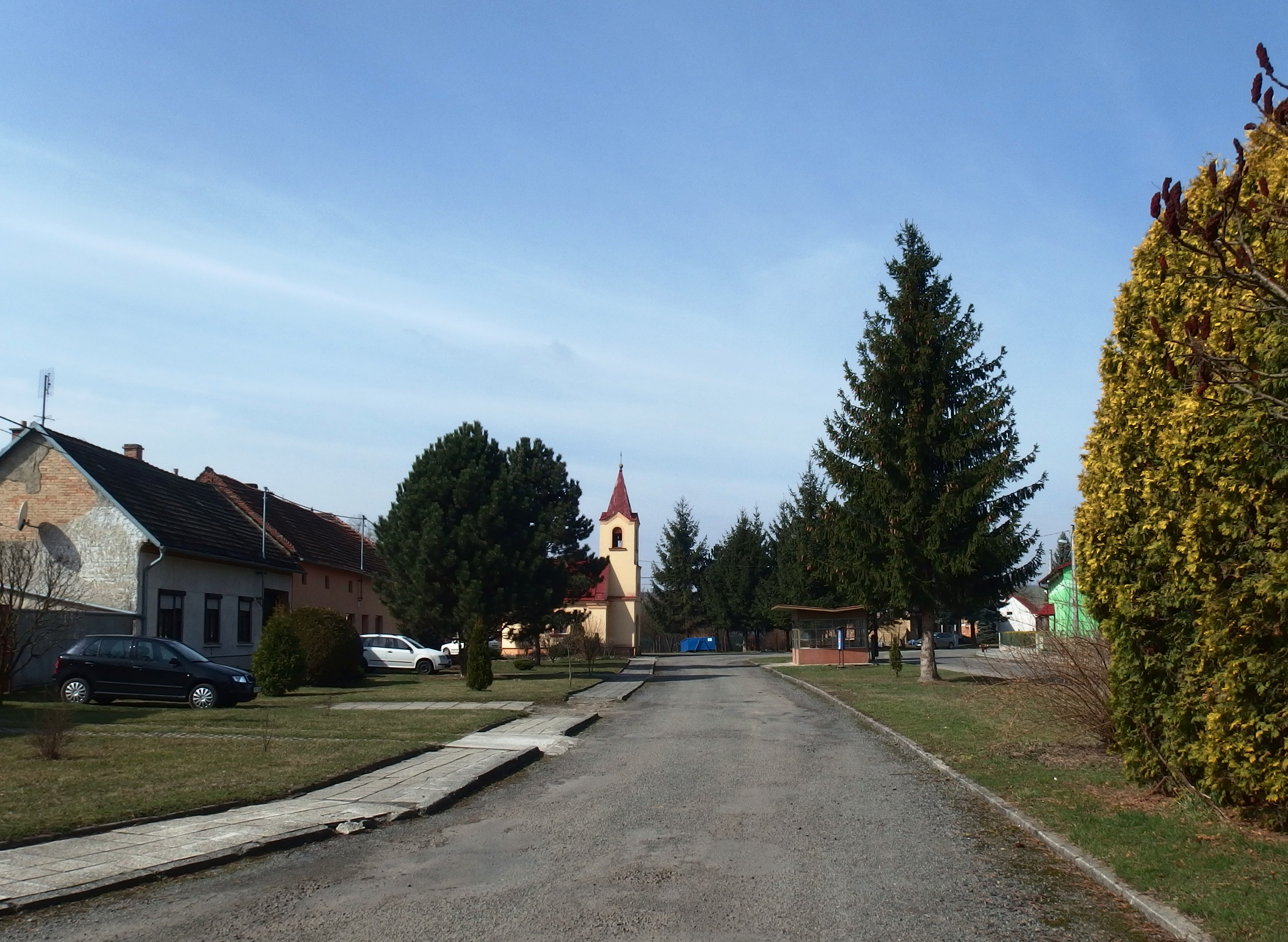 Litenčice, Kroměříž District, Czech Republic, part Strabenice.